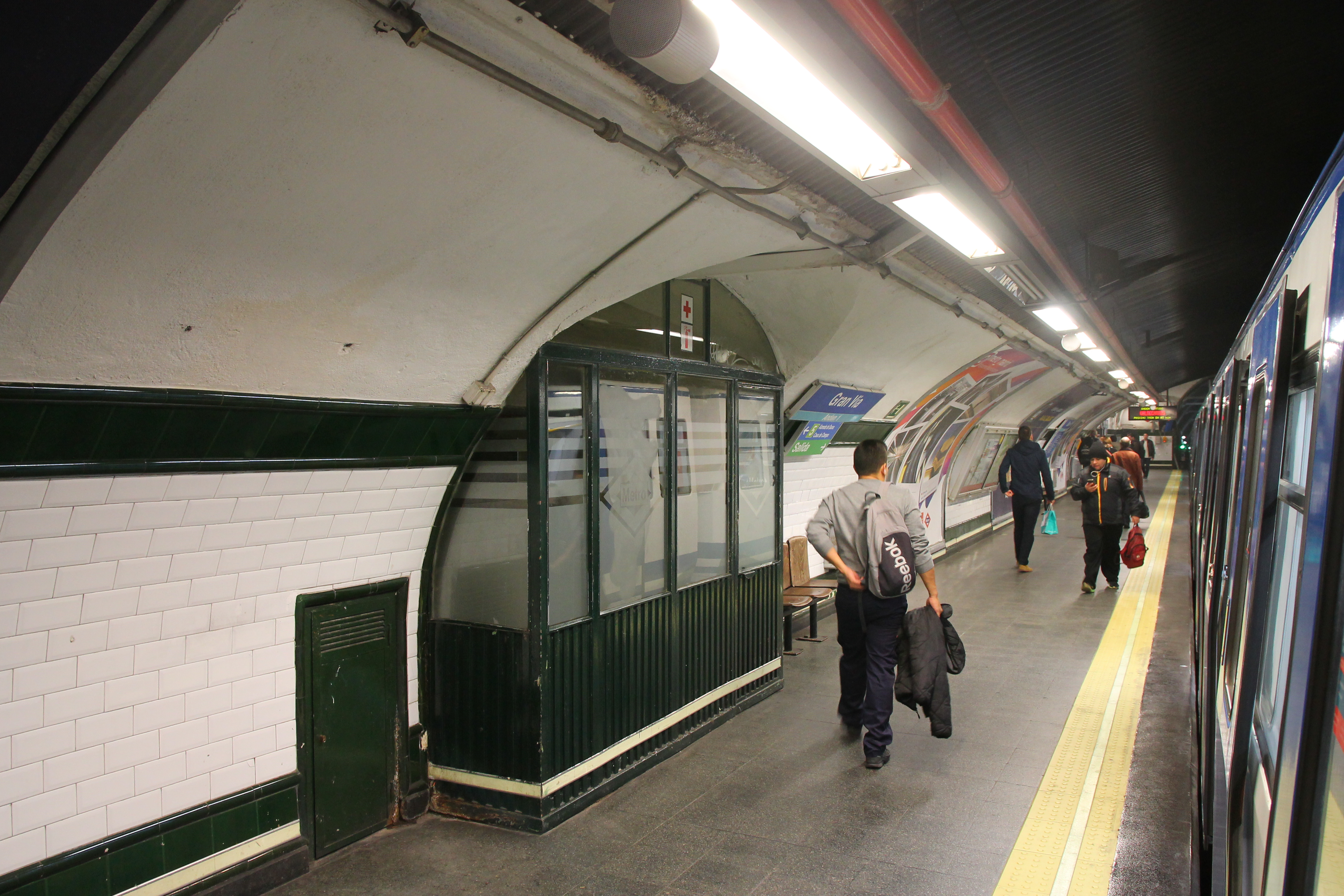 Estación de Gran Vía